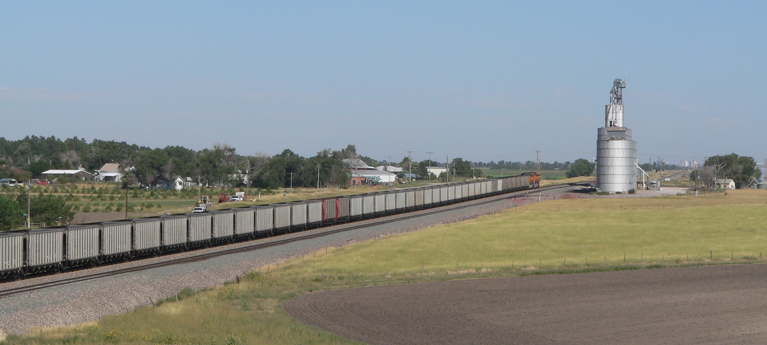 Berea, Nebraska, seen from the southeast. Photographer was atop overpass carrying U.S. Highway 385 over Nebraska Highway 2 and the BNSF Railway.